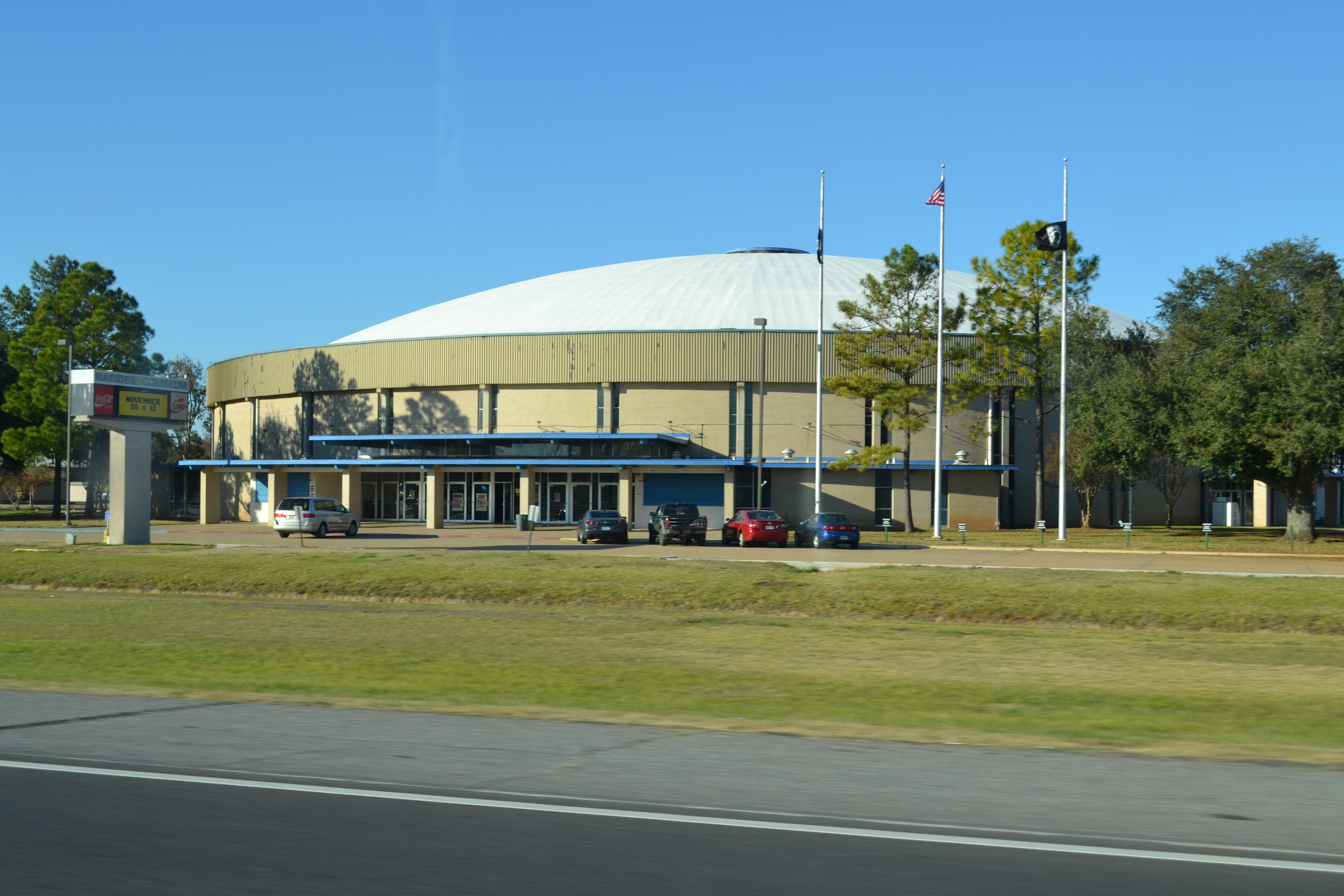 Rapides Coliseum - November 2012